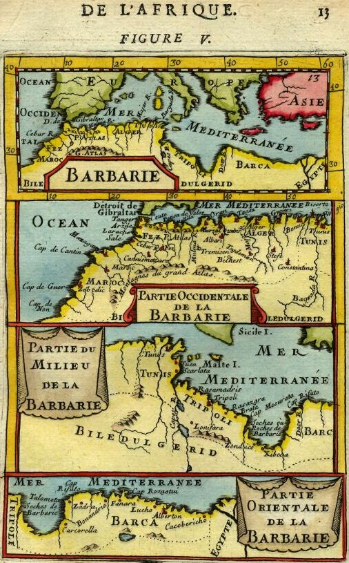 All the maps and views shown here come from different editions (1683-1719) of Mallet; some of them are from translations into German and Italian, and some from later reissues by others, with or without small modifications.